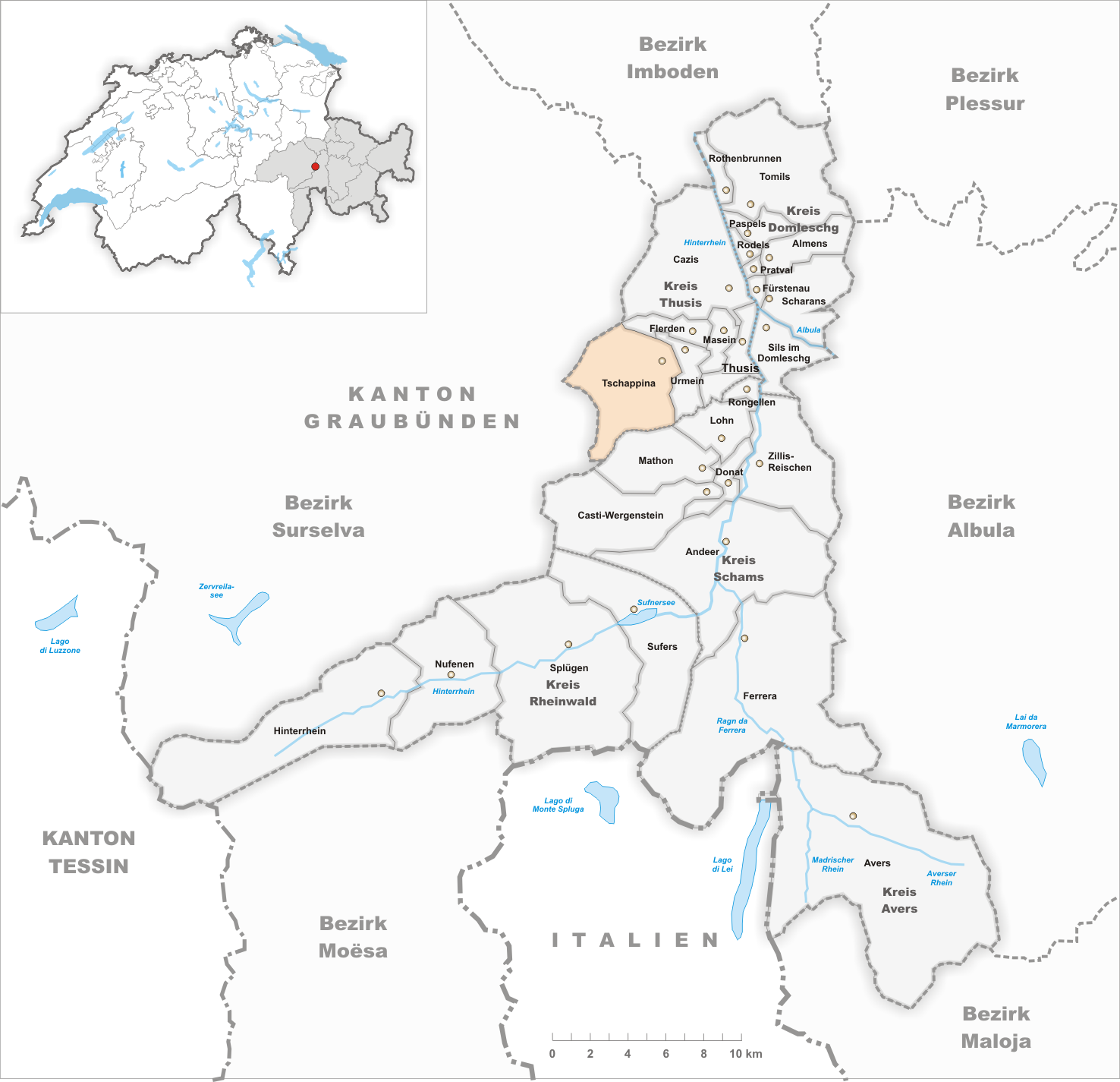 Municipality Tschappina